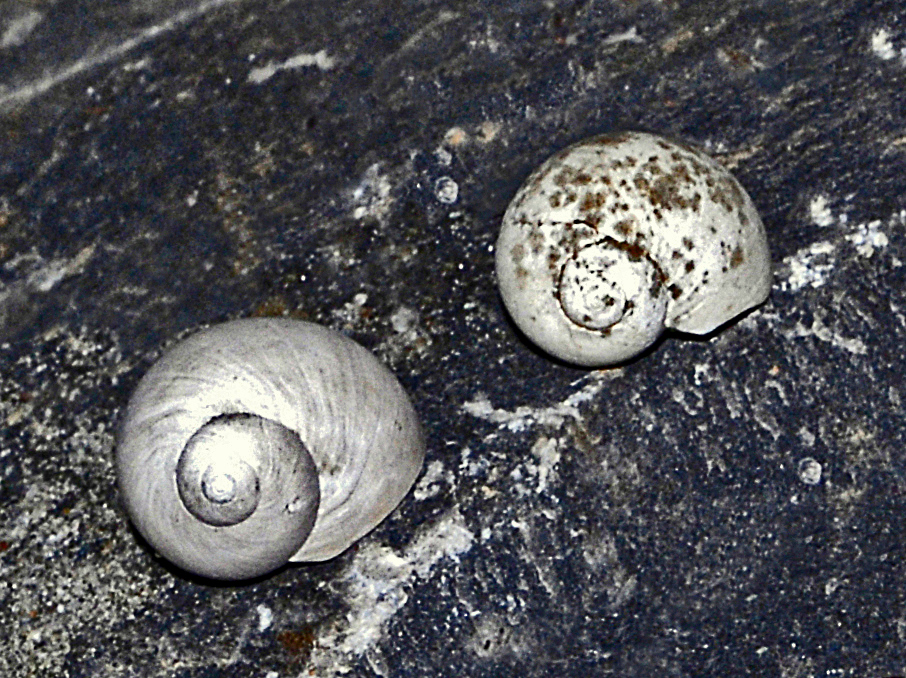 Fossils of Tectonatica astensis from Pliocene of Italy, on display at Museo Paleontologico Lai, Ceriale, Savona, Italy